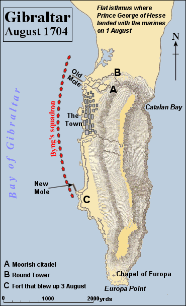 Capture of Gibraltar 1704, based on original in G. M. Trevelyan's England Under Queen Anne Volume 1